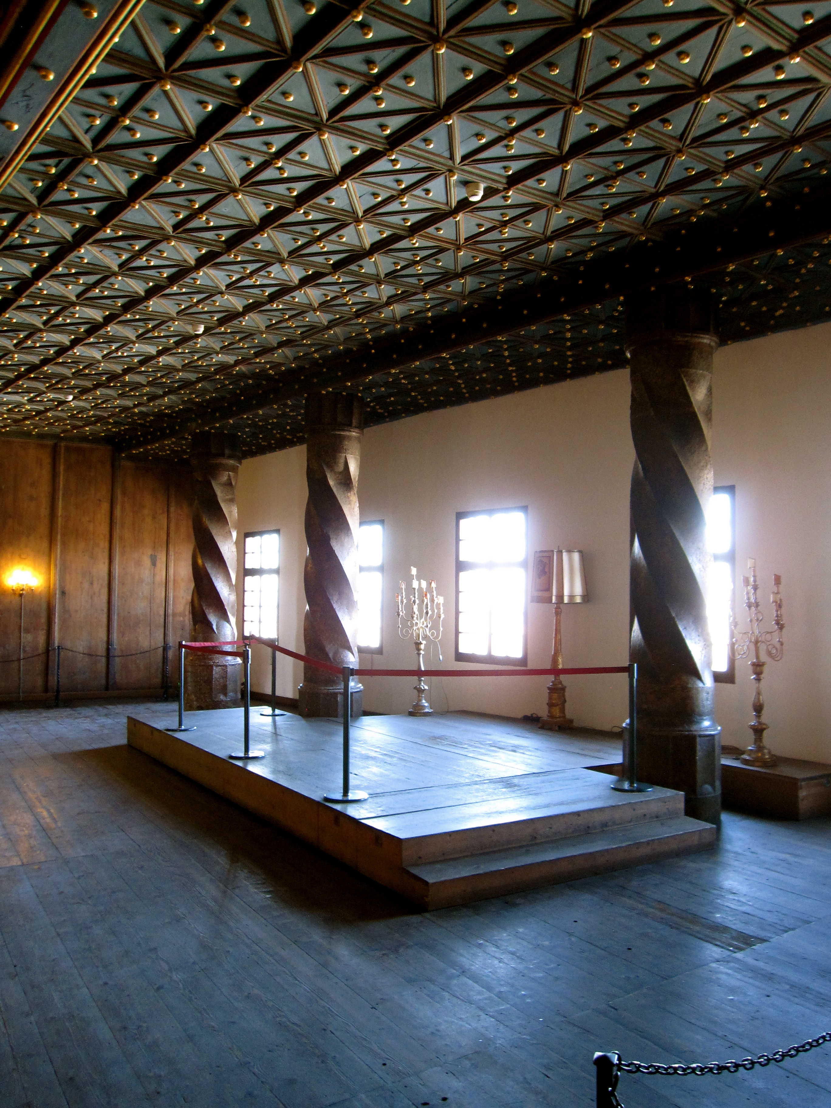 Golden Hall of Hohensalzburg Castle.